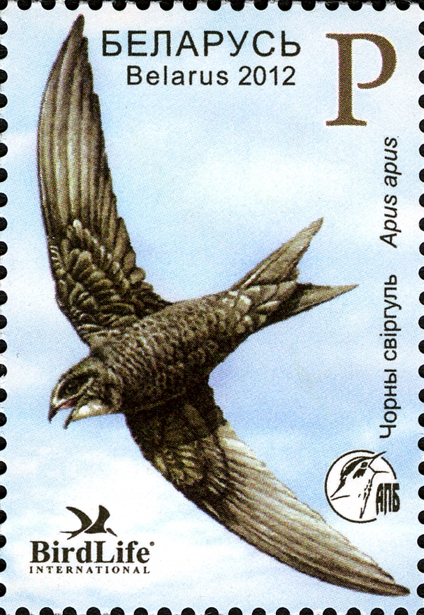 Stamp of Belarus